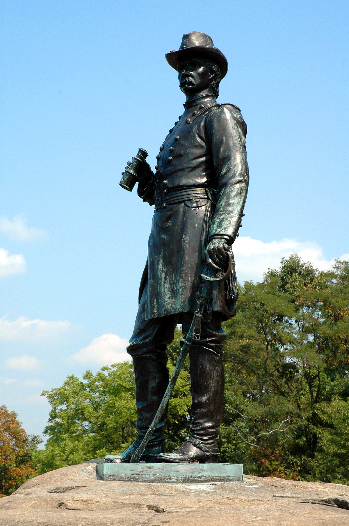 Statue of Gouverneur K. Warren at Gettysburg National Military Park. Photograph donated to Wikipedia by Donald Wiles.